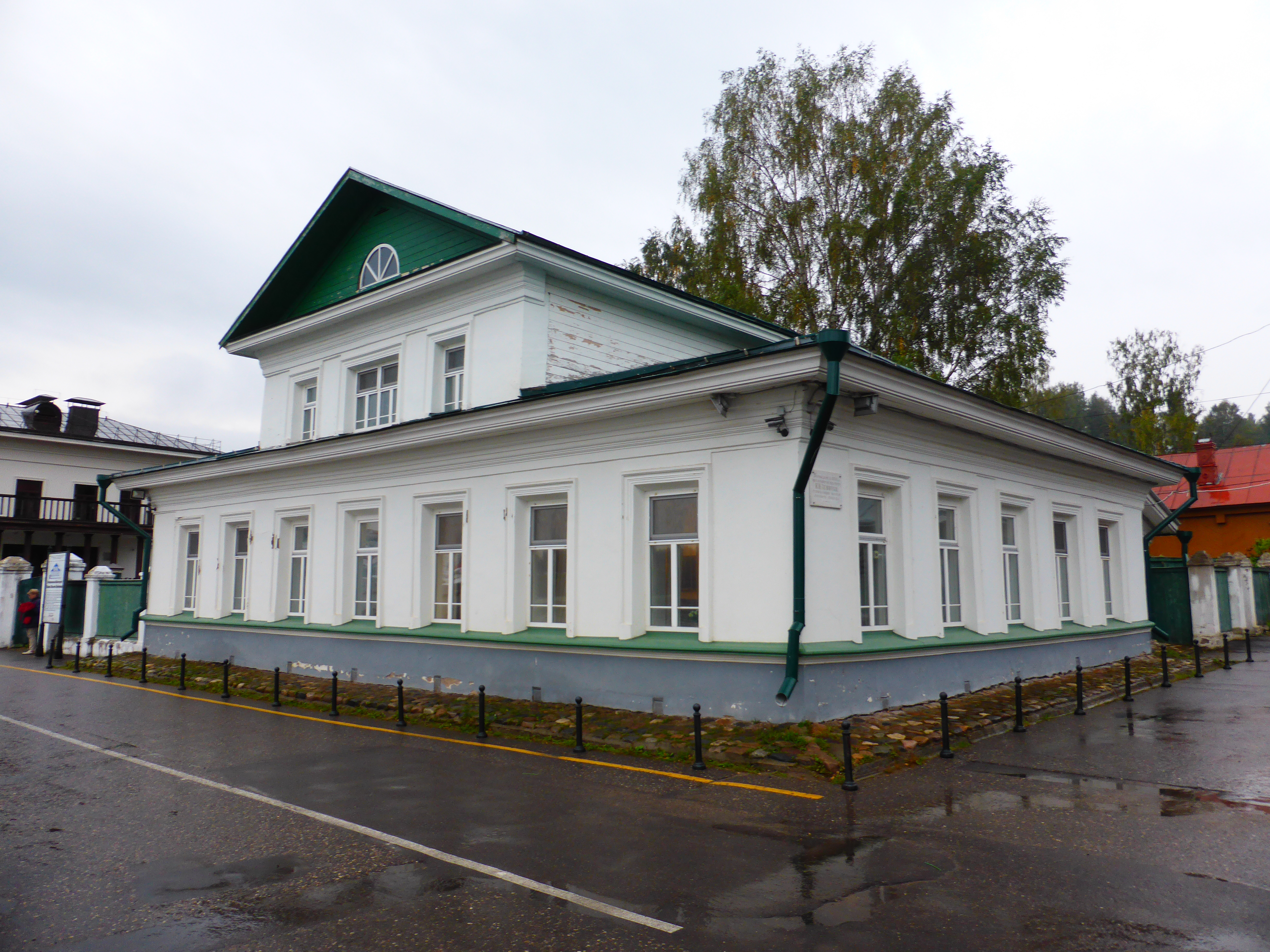 The house where in 1888-1890 lived and worked the outstanding Russian artist I. I. Levitan